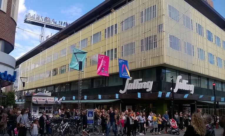 Strøget med Salling stormagasin, Aarhus